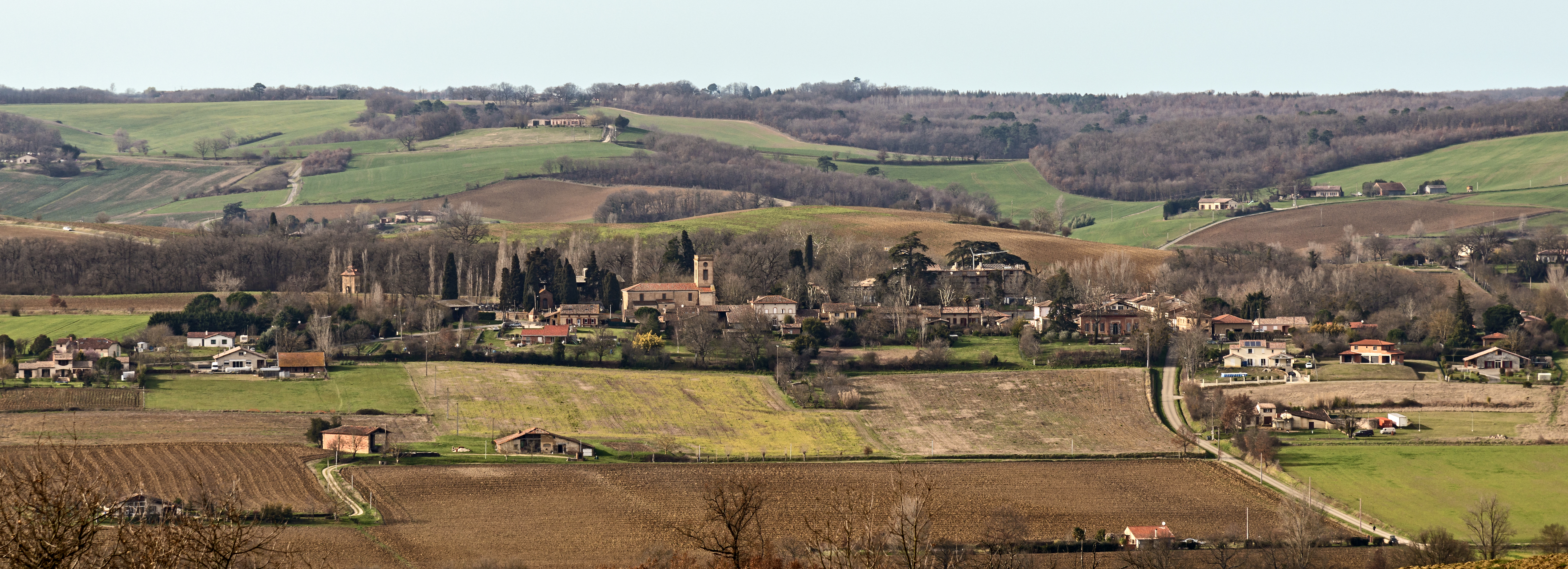 Drudas, Haute-Garonne, France, view from Pelleport.